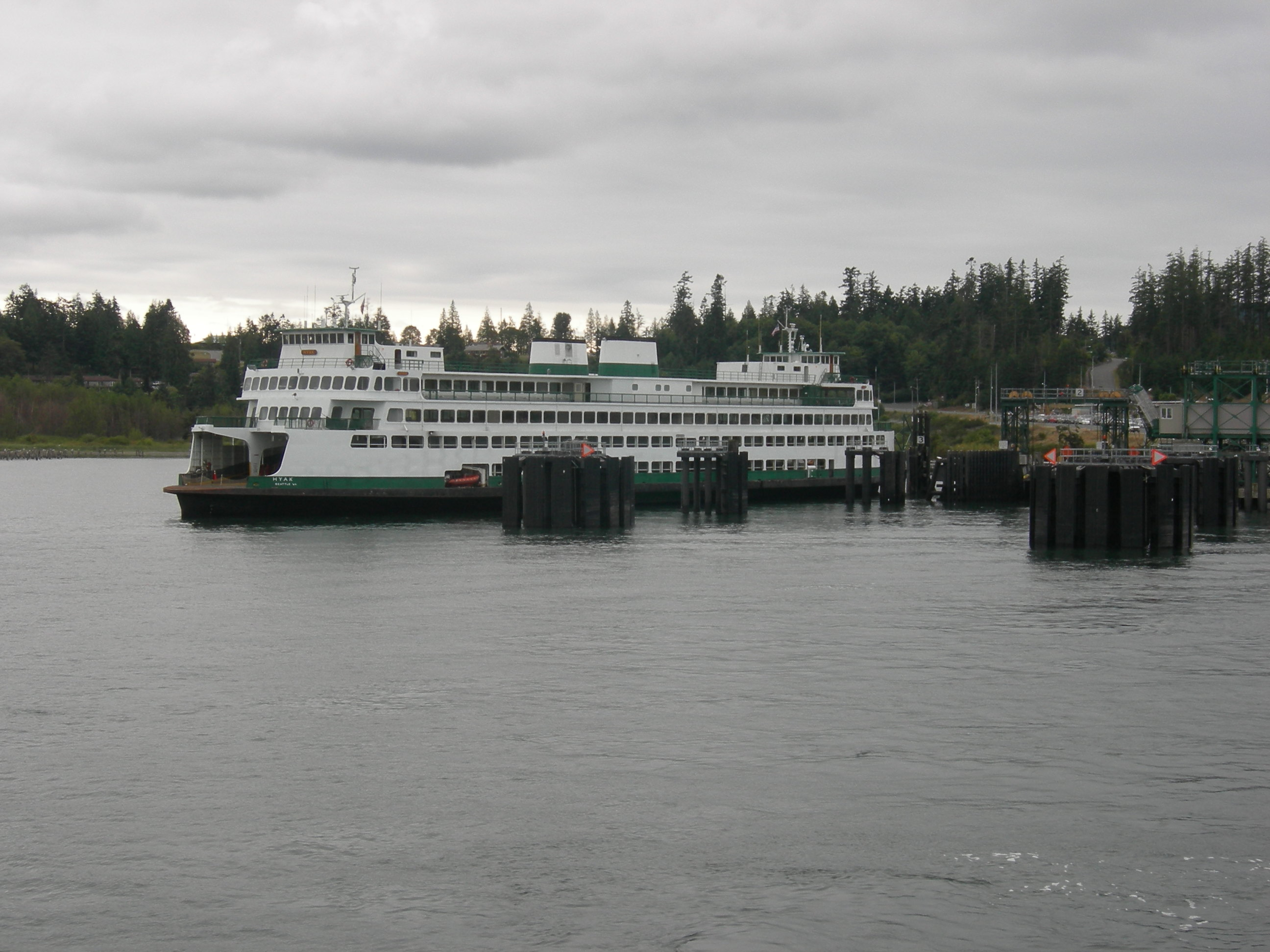 View from a Washington State Ferry approaching the Anacortes, Washington ferry dock that serves the San Juan Islands ferries. Another ferry is visible in the other berth of the dock.